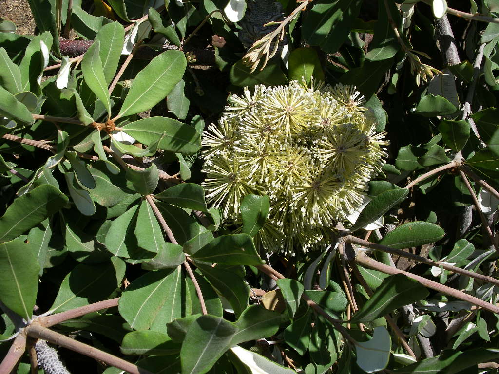 Banksia integrifolia var. integrifolia, in flower in Jan 2005